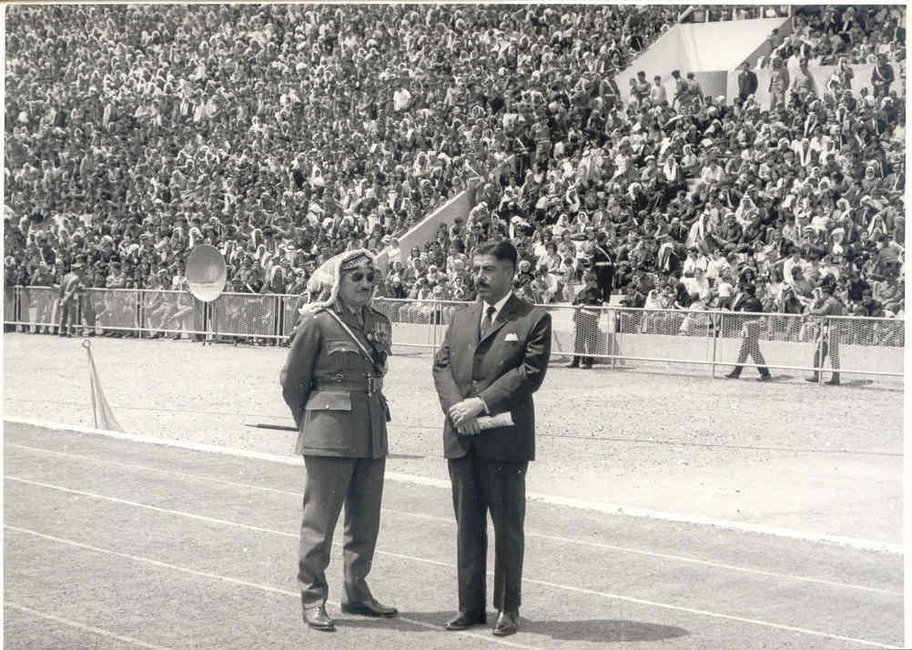 Field marshal Habis Al-Majali and former prime minister Wasfi Al Tall